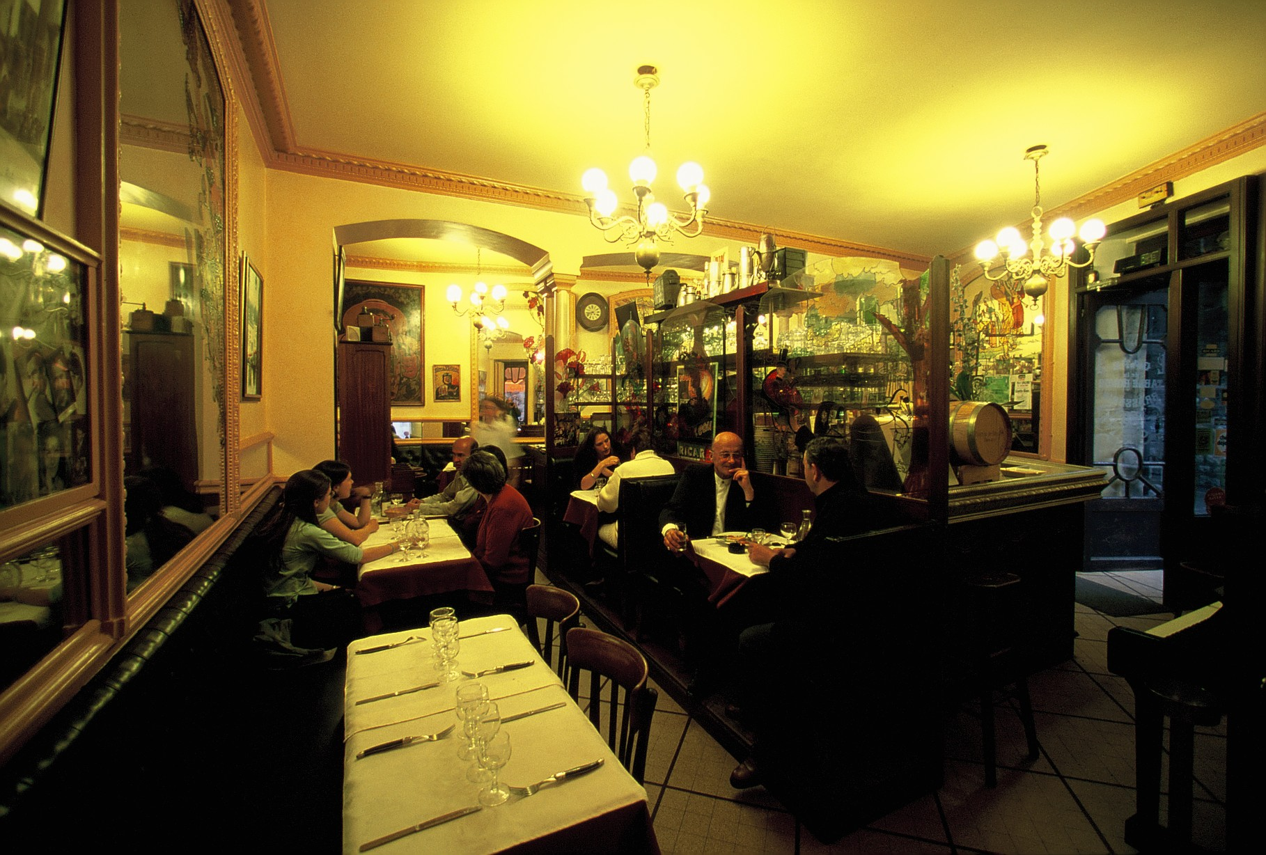 Inside the Table Ronde Café in Grenoble